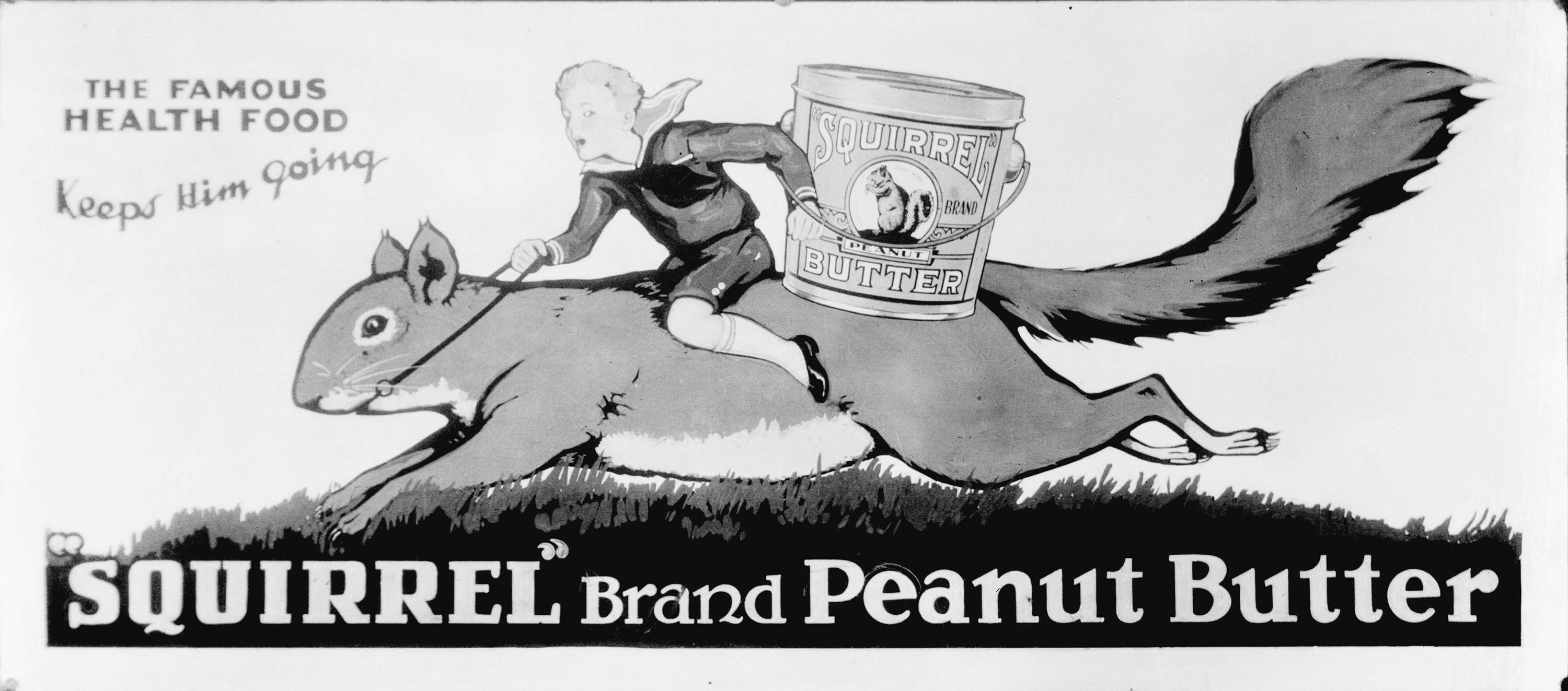 Title proper Copy of Squirrel brand peanut butter poster made for Canada Nut Co. General material designation Photograph Level of description Item Reference code AM1535-: CVA 99-1621 Dates of creation area Date(s) 28 Sept. 1927 (Creation) Physical description area Physical description 1 photograph: b&w nitrate negative; 12 x 16 cm Archival description area Name of creator Thomson, Stuart (1881-1960) Access points Place access points Vancouver (B.C.) Rights area Related right Basis Copyright Copyright status Public domain Act Replicate Restriction Allow Digital object metadata Filename aedacaac-2646-40fc-8612-78de76a133ef-A00286.jpg Mime-type image/jpeg Filesize 236 KiB